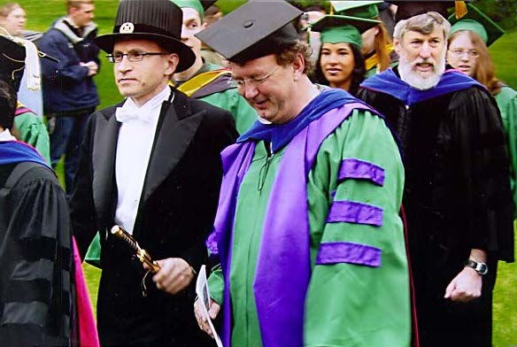 Robes from Germany and from Finland @ a graduation in USA image user:Uwe Kils Permission granted to use under the GFDL.